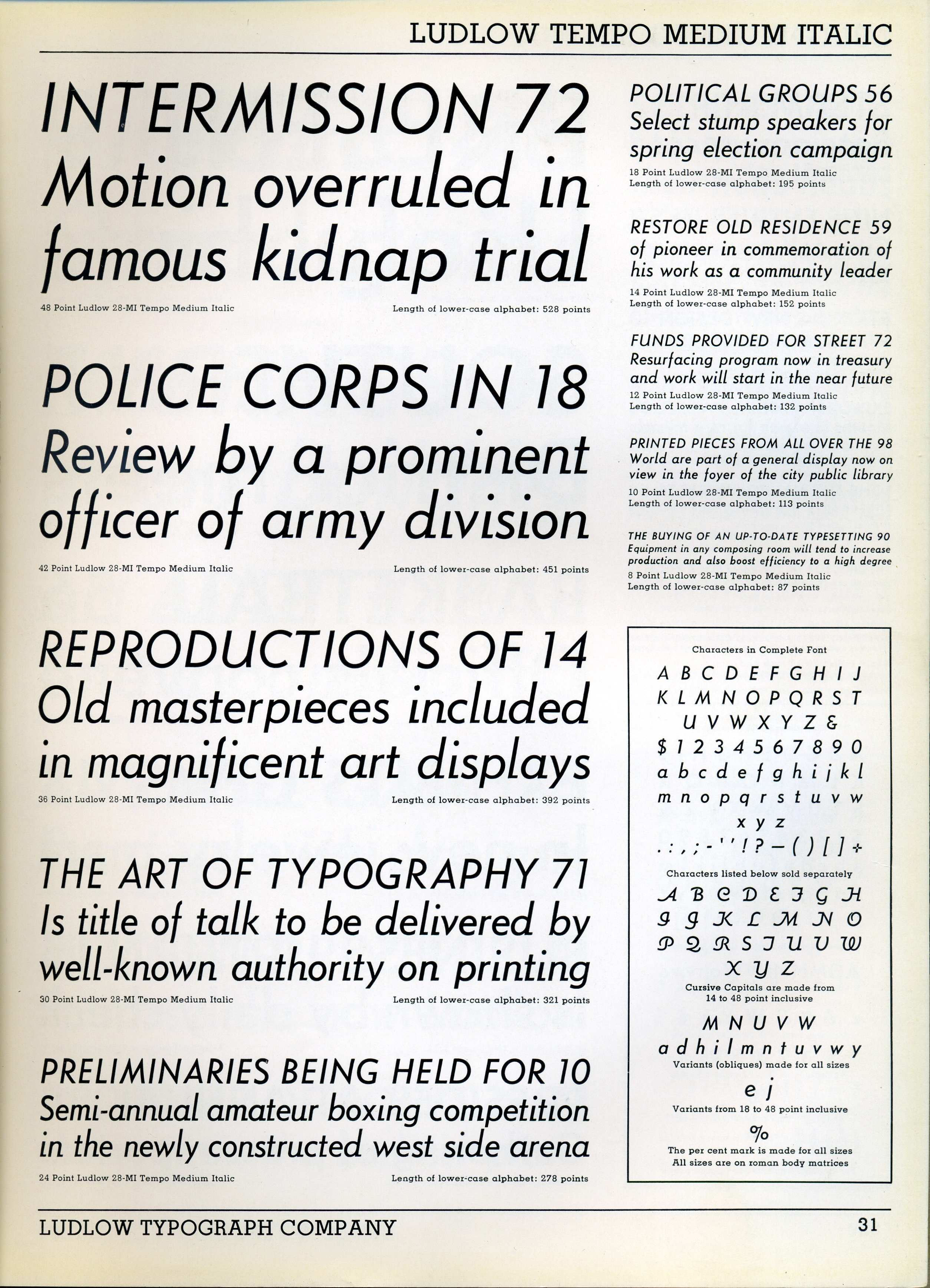 From